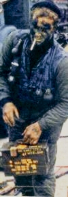 A "Comando Anfibio" after the fall of Port Stanley to Argentinian forces, April 2 1982. From an Official reporter of the Argentinian Navy. Published in Somos magazine, April 1982